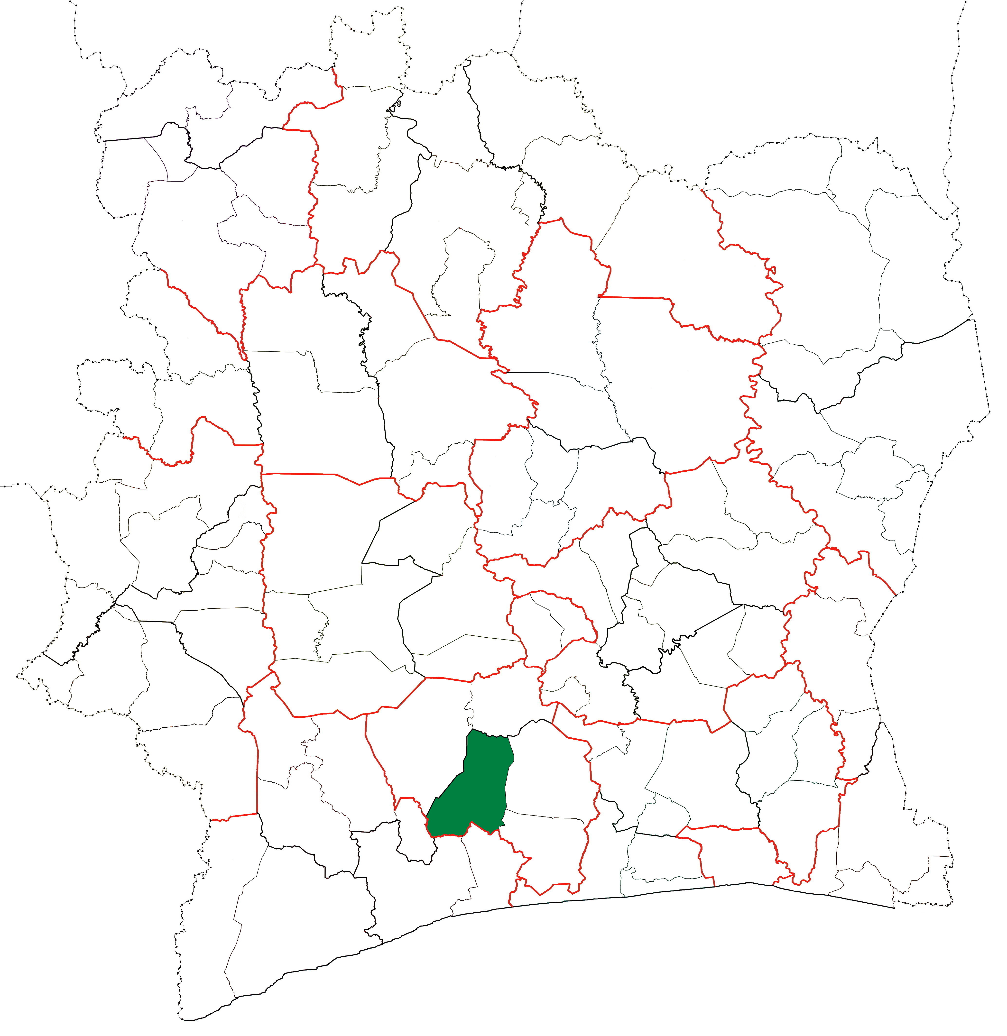 Locator map for Lakota Department in Côte d'Ivoire.